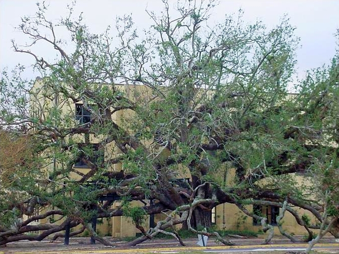 Friendship Oak in December 2005, approximately 3 months after being damaged by Hurricane Katrina